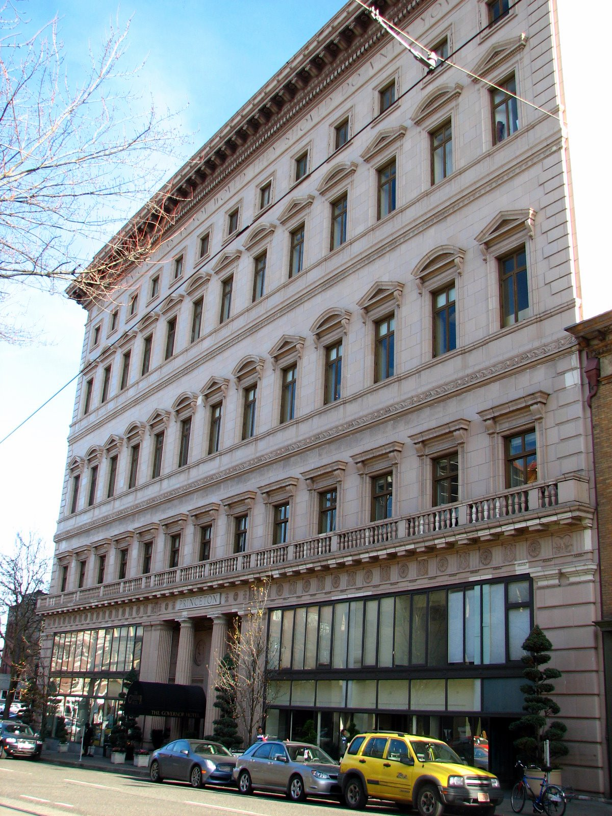 The historic Elks Temple (built 1922), located at 614 Southwest 11th Avenue in Portland, Oregon, United States, is listed on the US National Register of Historic Places. It is currently attached to and part of the adjacent Governor Hotel.